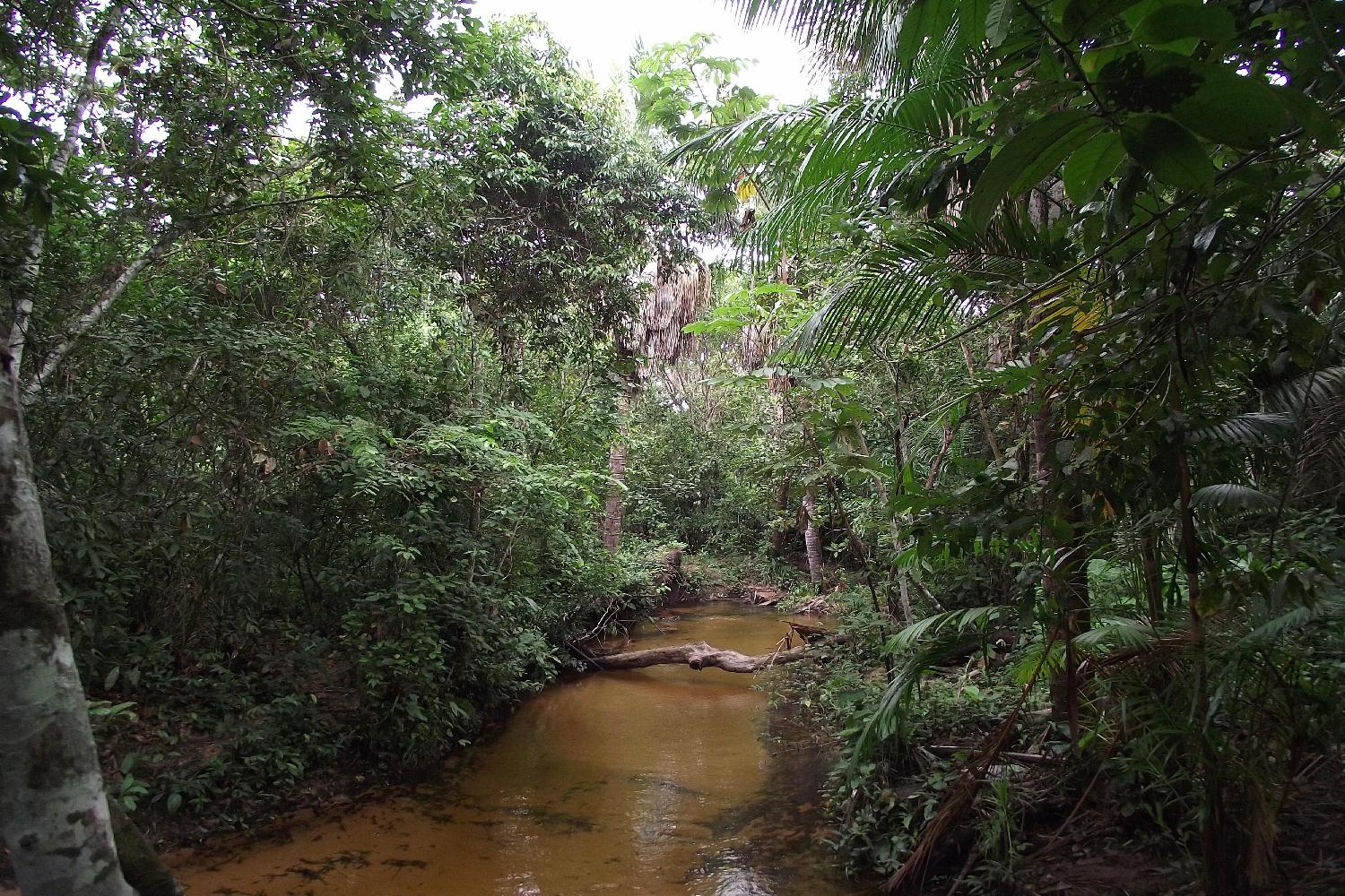 Chapada das Mesas National Park, Carolina, Maranhão, Brazil.